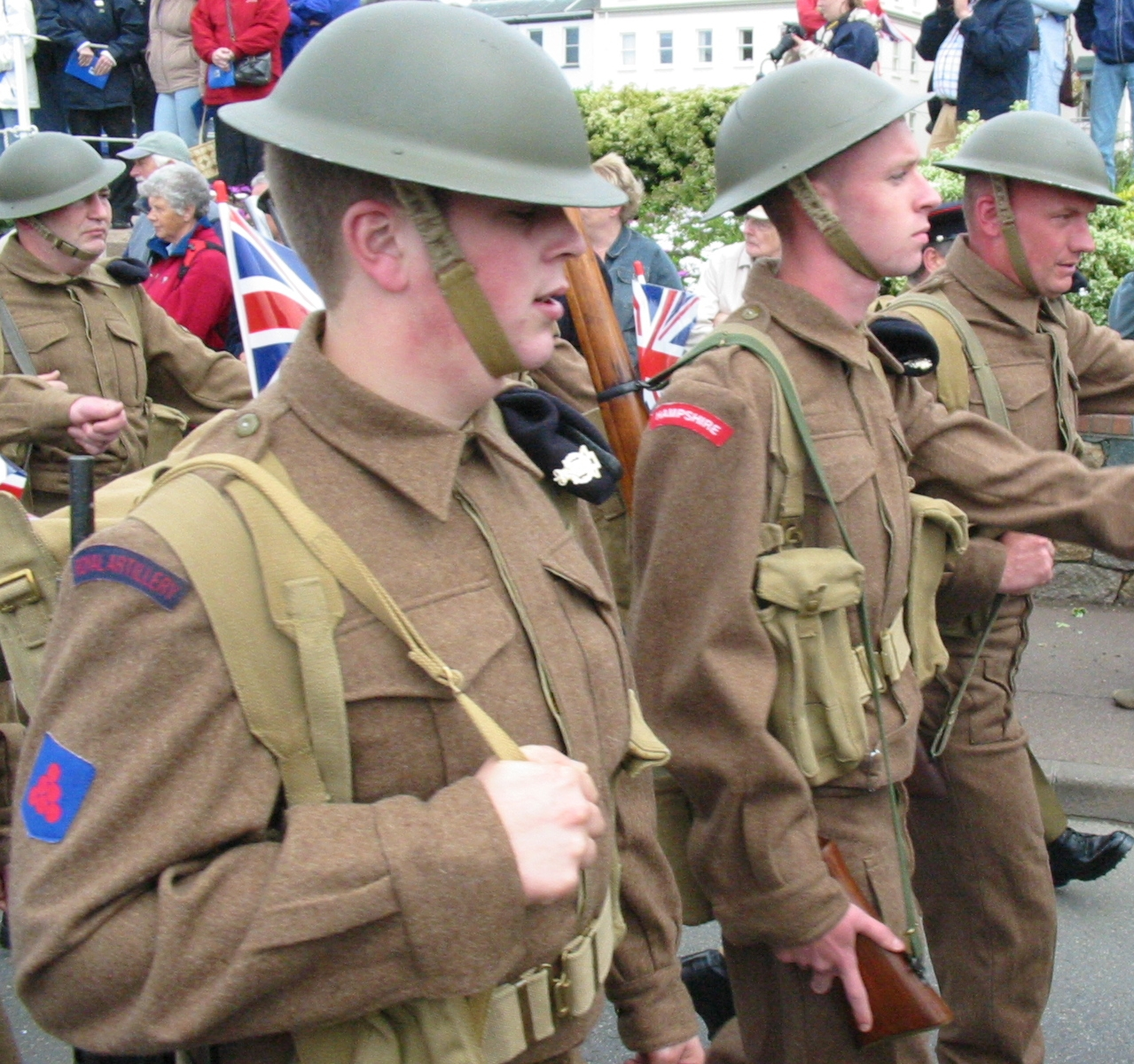 1945 British Army uniforms for reenactment as part of Liberation Day celebrations in Jersey, 9 May 2007